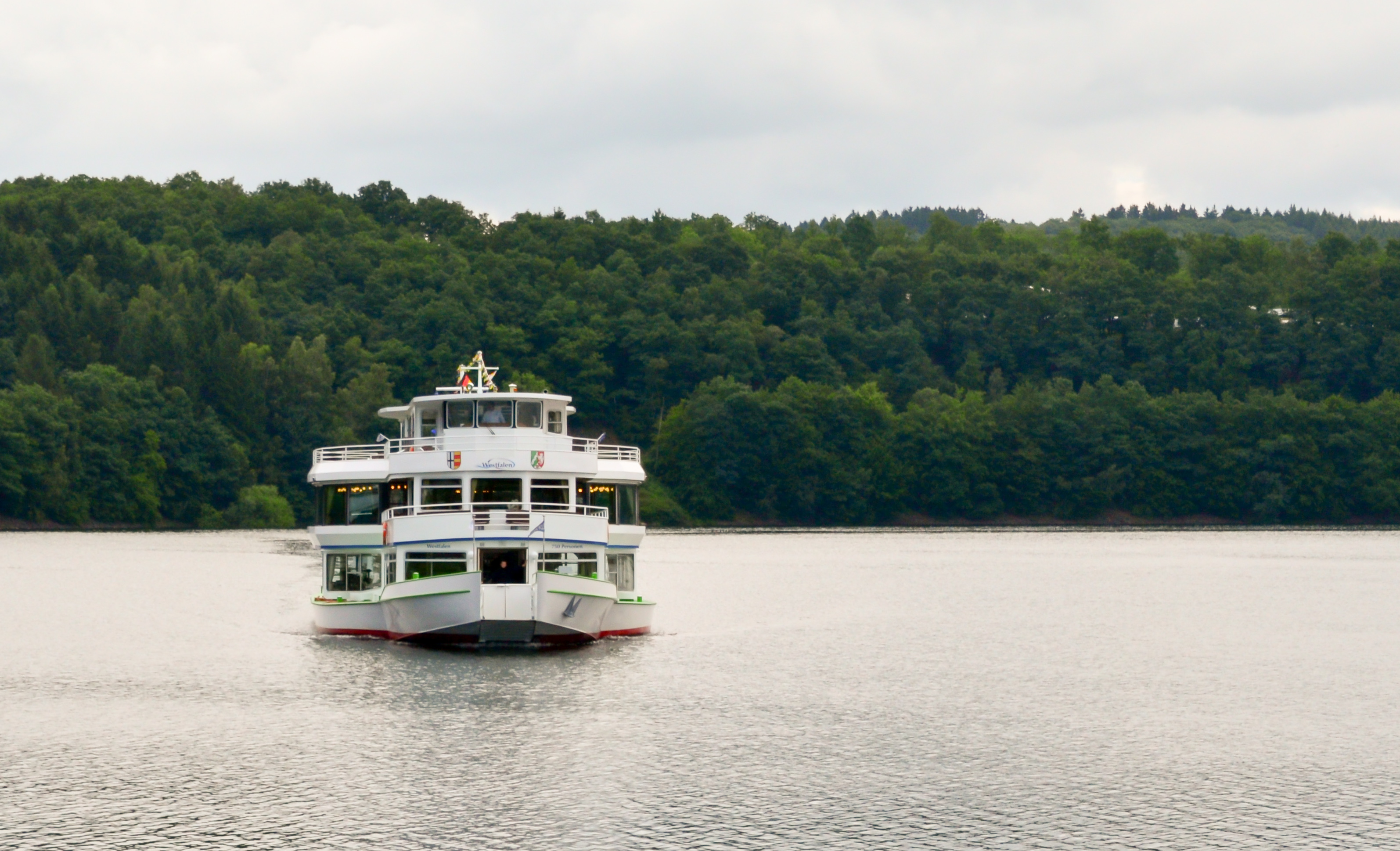 57462 Olpe, Germany